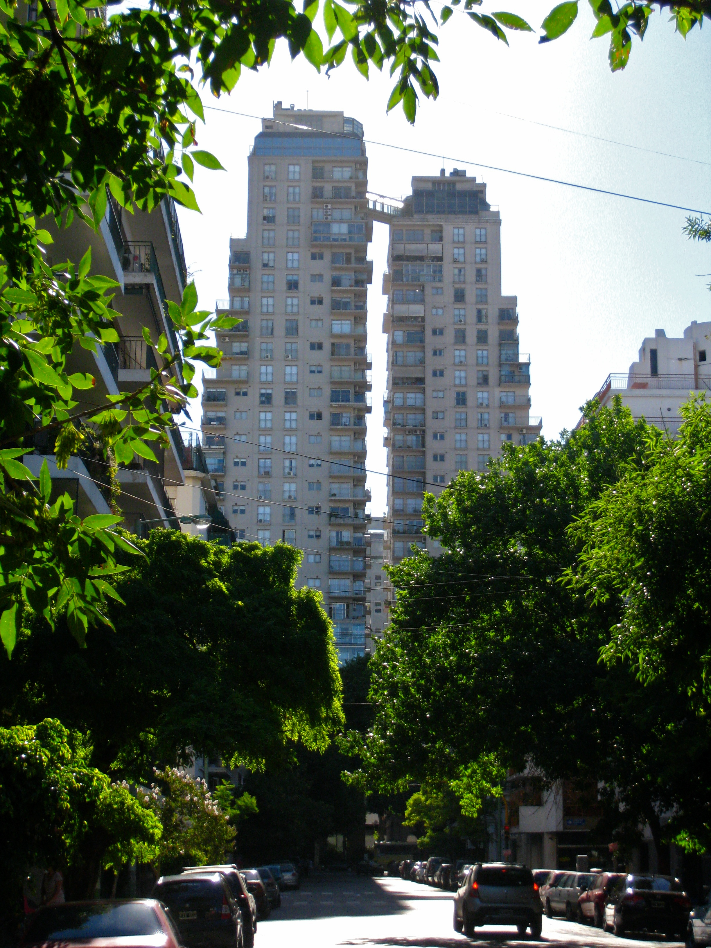 Solares de Montes de Oca, twin condominium towers in the Barracas district of Buenos Aires.